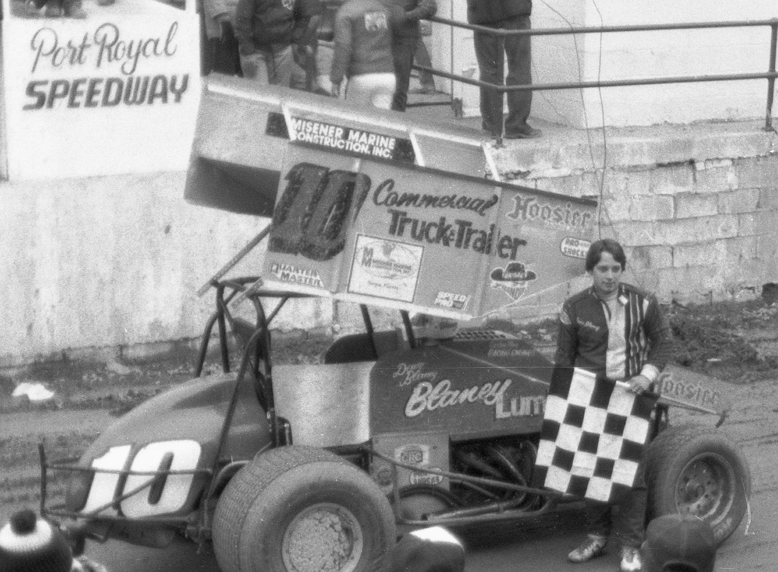 NASCAR driver Dave Blaney in 1984 at his first Port Royal Speedway win. Photo By Ted Van Pelt